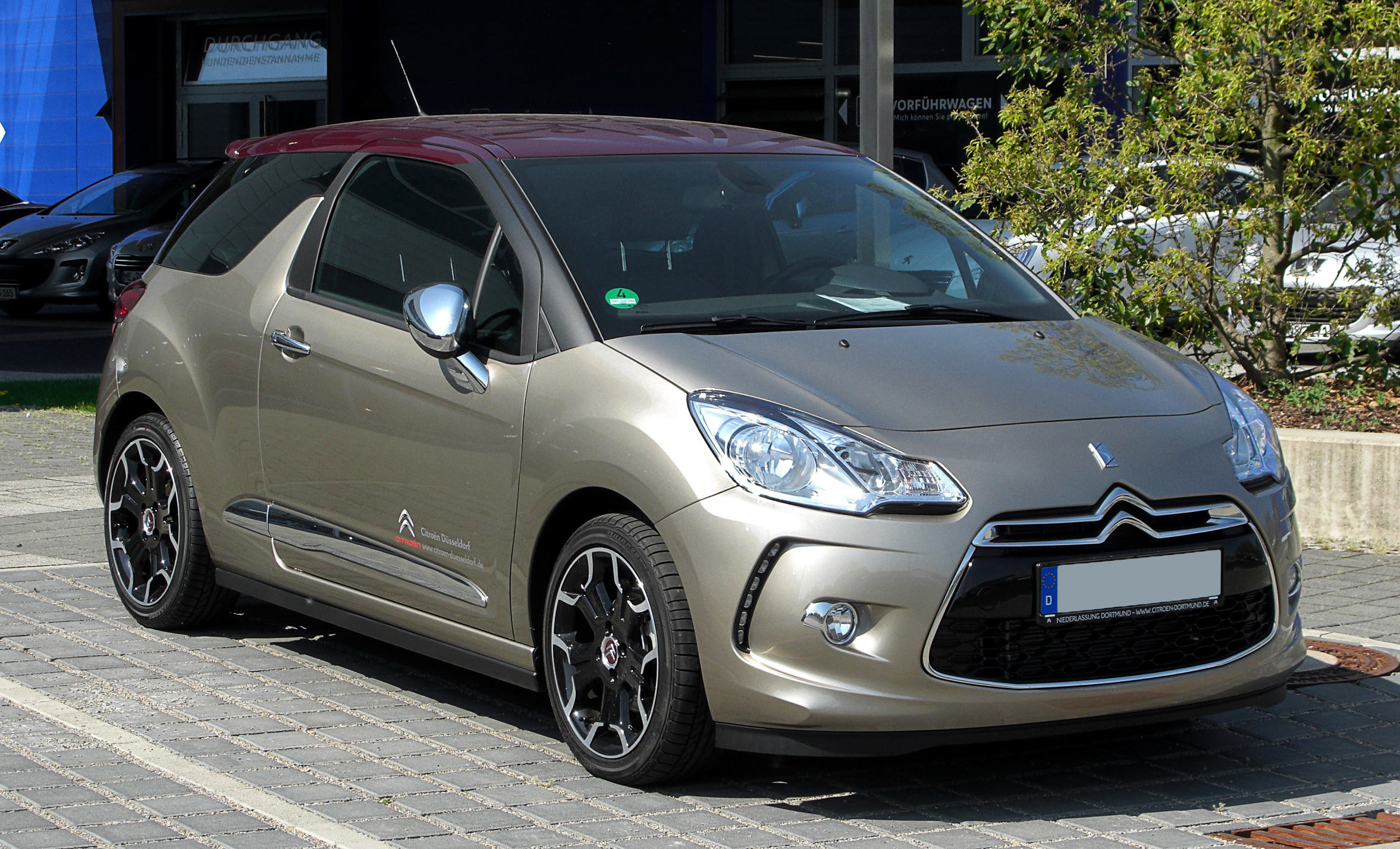 Citroën DS3 HDi 110 SportChic